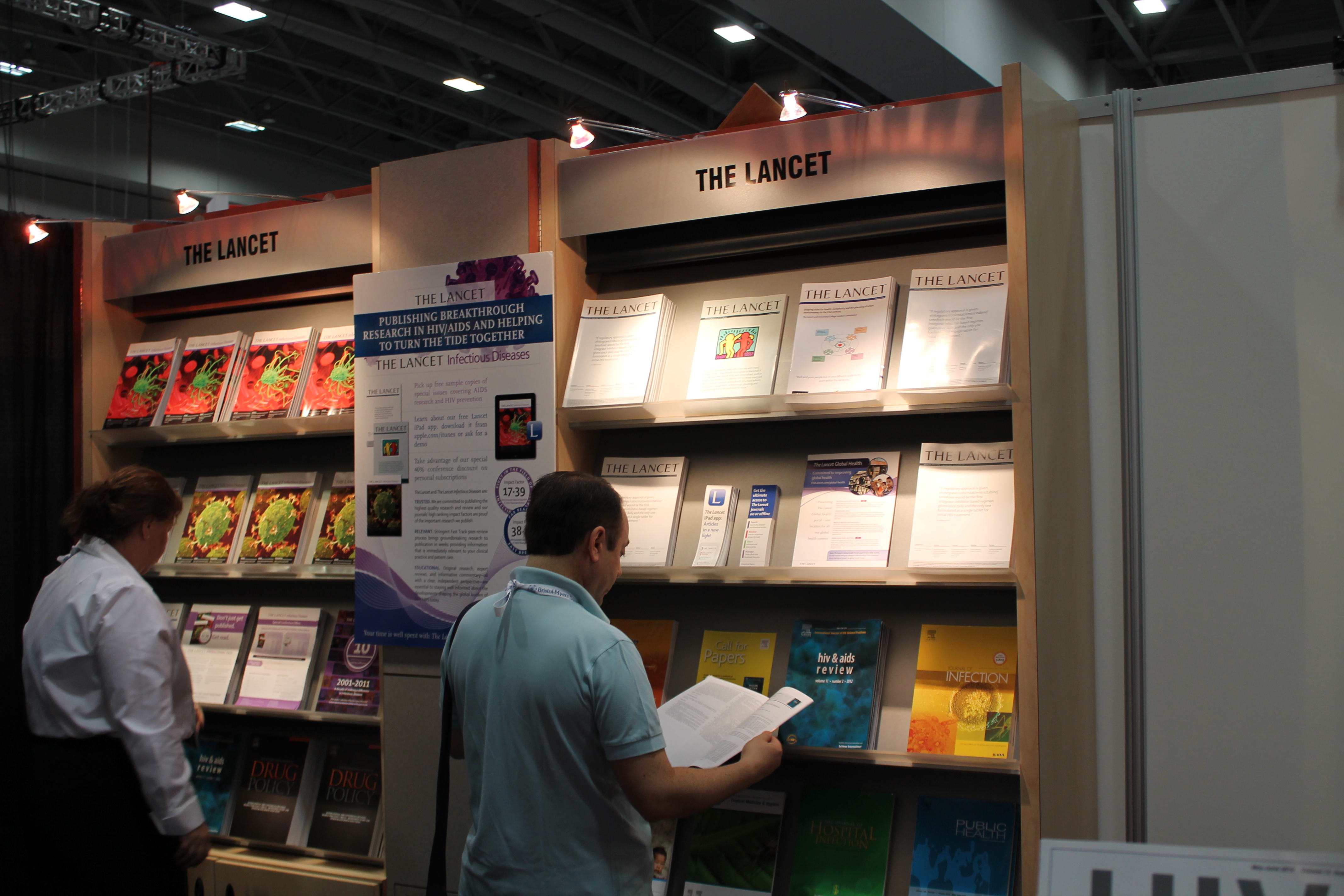 Lancet exhibition booth at 2012 International AIDS Conference